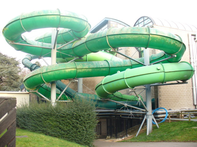 Flumes in Woking Park Curling tubes take water-chuters outside the pool walls - and back in again!